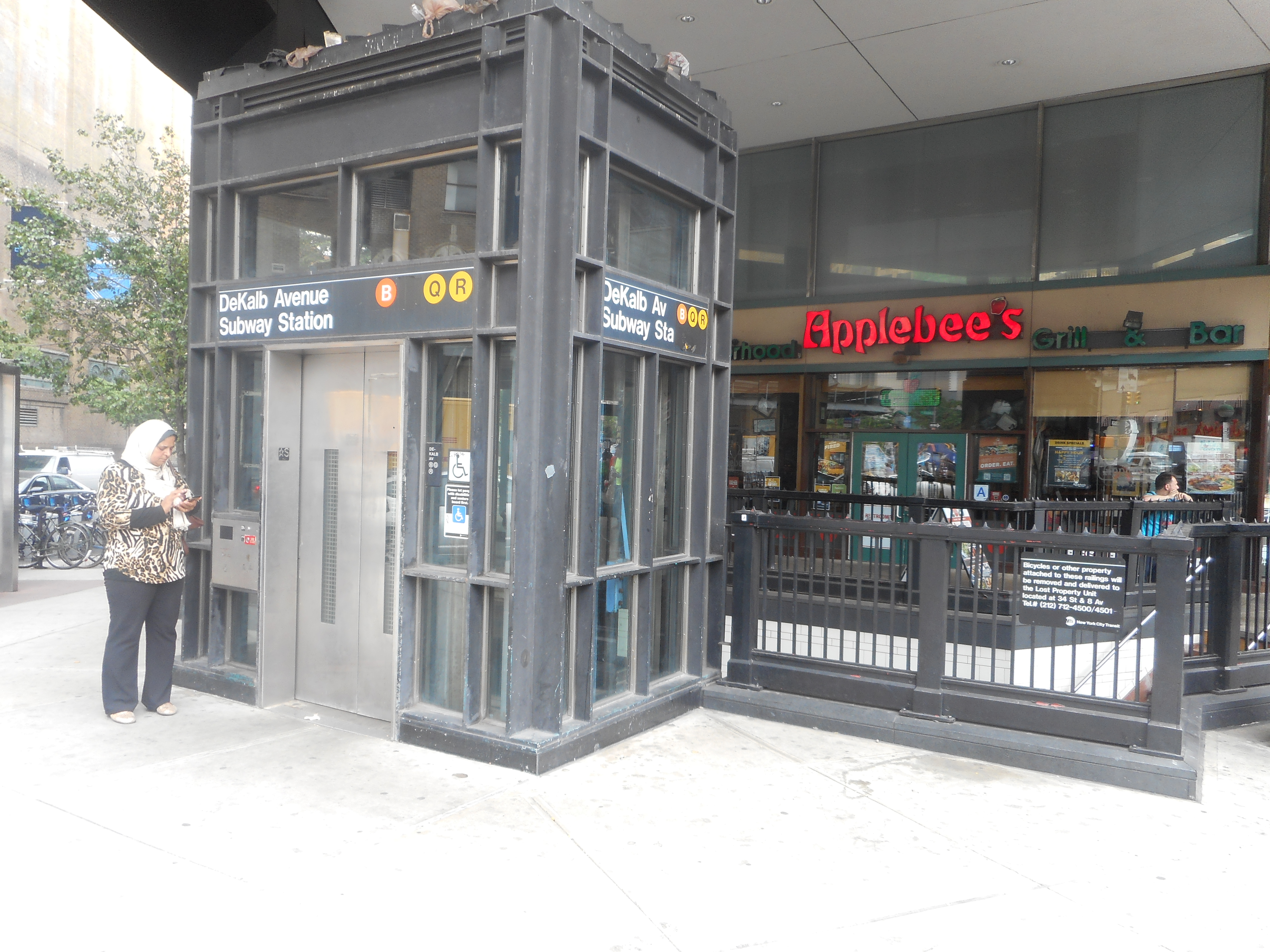 The combined staircases and elevator for the DeKalb Avenue Subway Station on the BMT Fourth Avenue Line in Downtown Brooklyn, on the southeast corner of Flatbush Avenue and DeKalb Avenue in front of an Applebee's Restaurant.